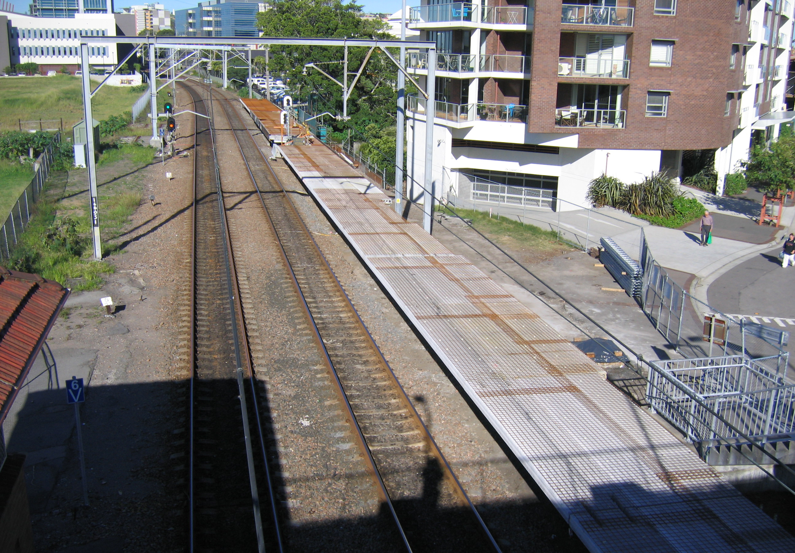 Wickham Railway station down platform extension viewed from footbridge